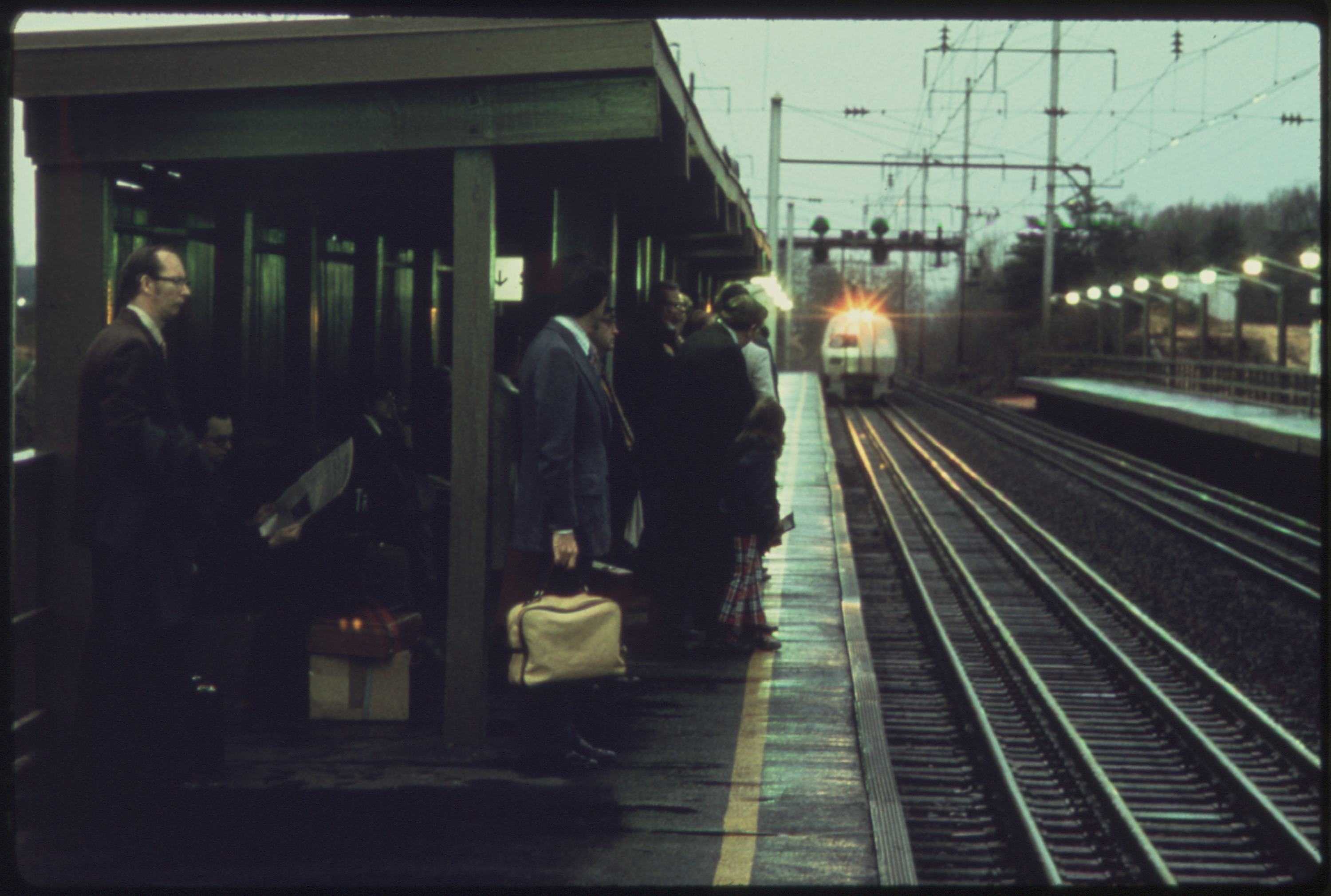 Scope and content: PASSENGERS WAITING FOR AN AMTRAK METROLINER TRAIN THAT WILL TAKE THEM FROM A WASHINGTON, DISTRICT OF COLUMBIA, SUBURB TO NEW YORK CITY. THE CORPORATION HAS TRAINS MAKING 16 ROUND TRIPS DAILY BETWEEN THE TWO CITIES. AMTRAK IS TRYING TO ACHIEVE A 55 PERCENT LOAD FACTOR AND IS NEAR THE 50 PERCENT FIGURE AT THIS TIME. TO ACHIEVE A MUCH HIGHER LOAD FACTOR, THE CORPORATION WOULD HAVE TO PACK PEOPLE IN THEIR TRAINS AT PEAK PERIODS. SOME 18,000,000 PEOPLE IN THE U.S RODE AMTRAK IN 1974, AN INCREASE OF 10 PERCENT FROM THE YEAR BEFORE